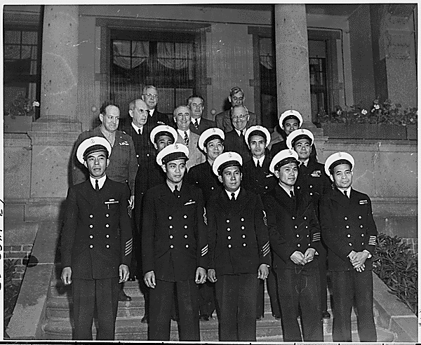 President Truman and members of his party pose on the north steps of the "Little White House," the President's residence in Potsdam, Germany during the Potsdam Conference, with their Filipino stewards. Directly above the uniformed stewards are, L to R: Gen. Harry Vaughan, Adm. William Leahy, Secretary of State James Byrnes, and President Truman. Press Secretary Charles Ross is directly behind President Truman.